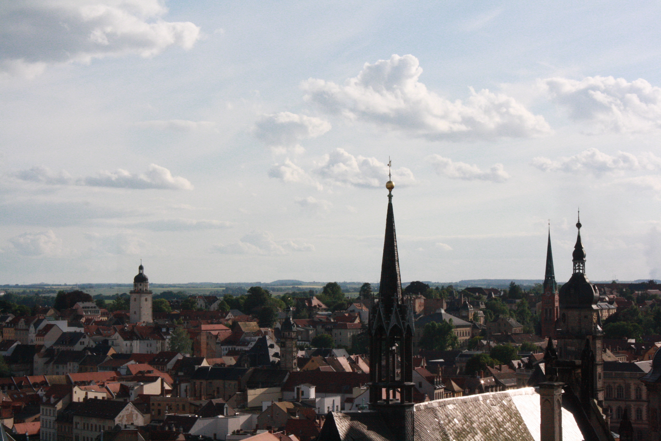 View over the historic district of Altenburg/Thringia from castle